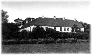 The main building of Snedinge seen from the south in Slagelse Municipality, Denmark